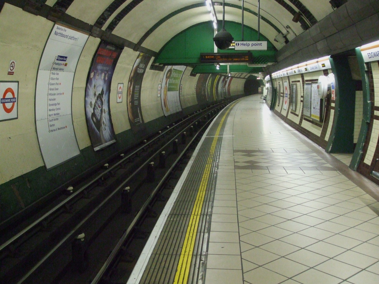 Edgware Road (Bakerloo line) tube station northbound platform looking south